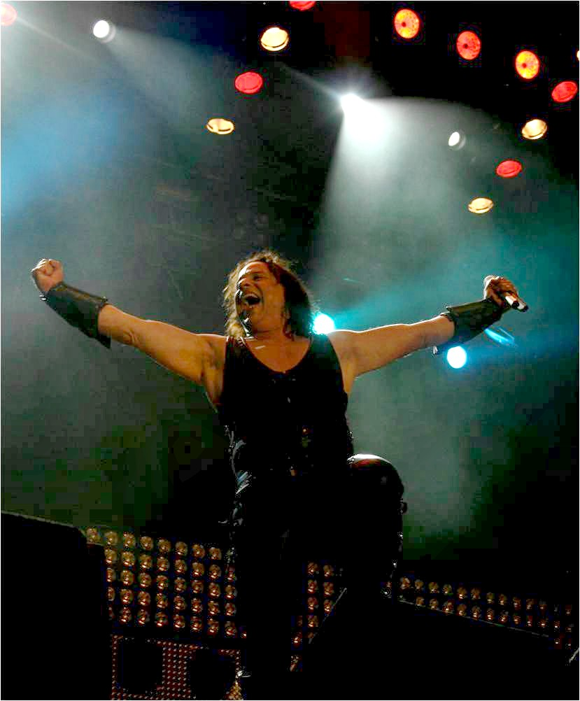 Eric Adams from Manowar at Norway Rock Festival 2009